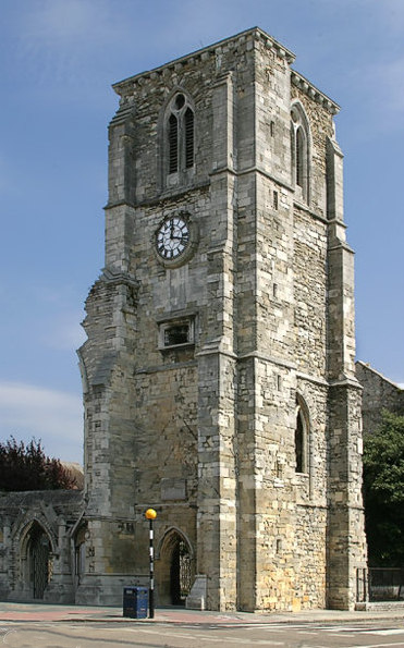 Holyrood Church, Southampton Mostly destroyed during the raids in the 1940s, the tower is preserved as a monument to the merchant seaman who have lost their lives at sea.